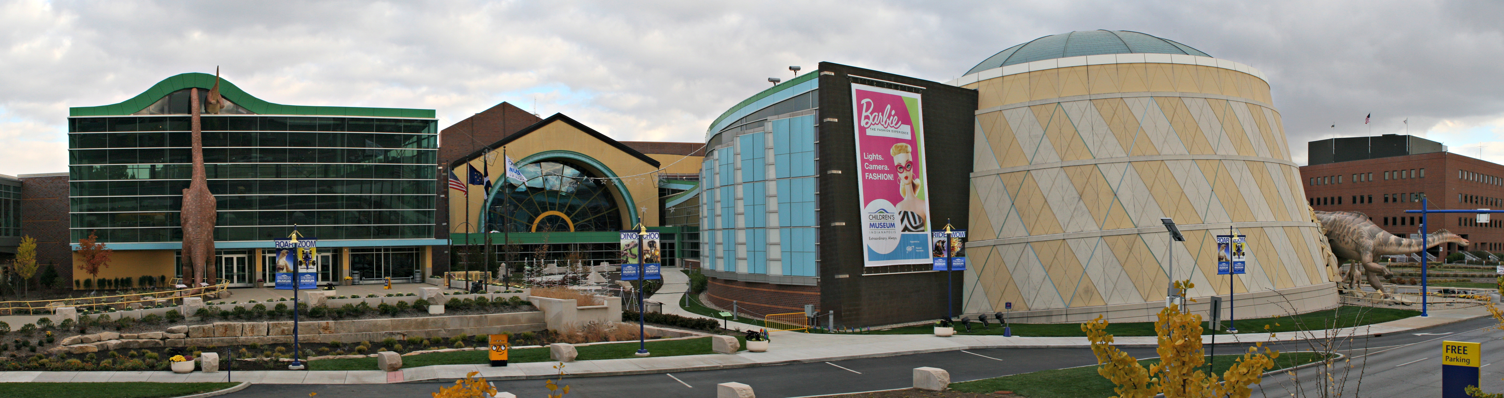 Panorama of the exterior of The Children's Museum of Indianapolis. Taken as three separate photos during the TCMI backstage pass event, and stitched together using Hugin.